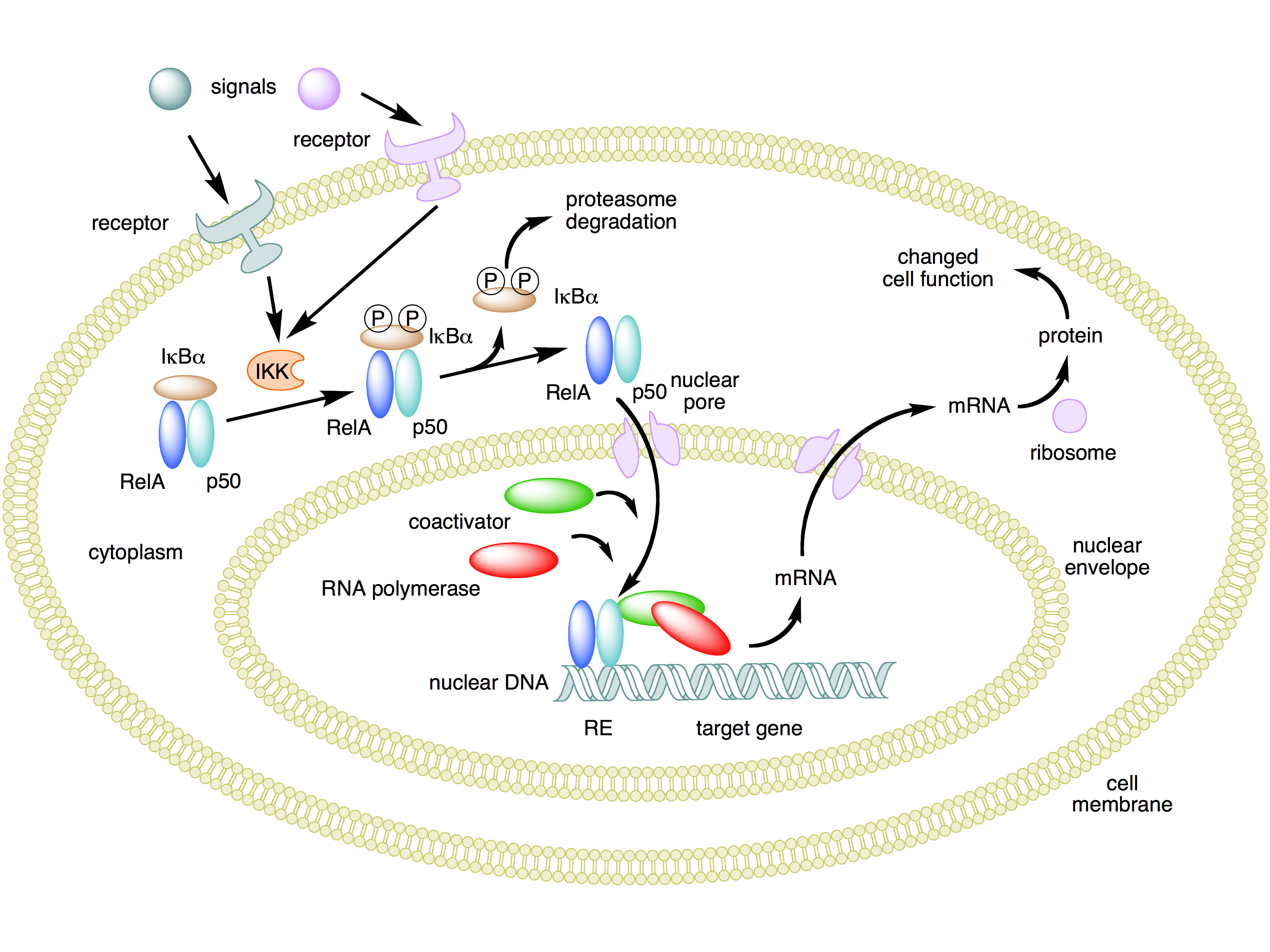 Created myself using Cambridgesoft BioDraw